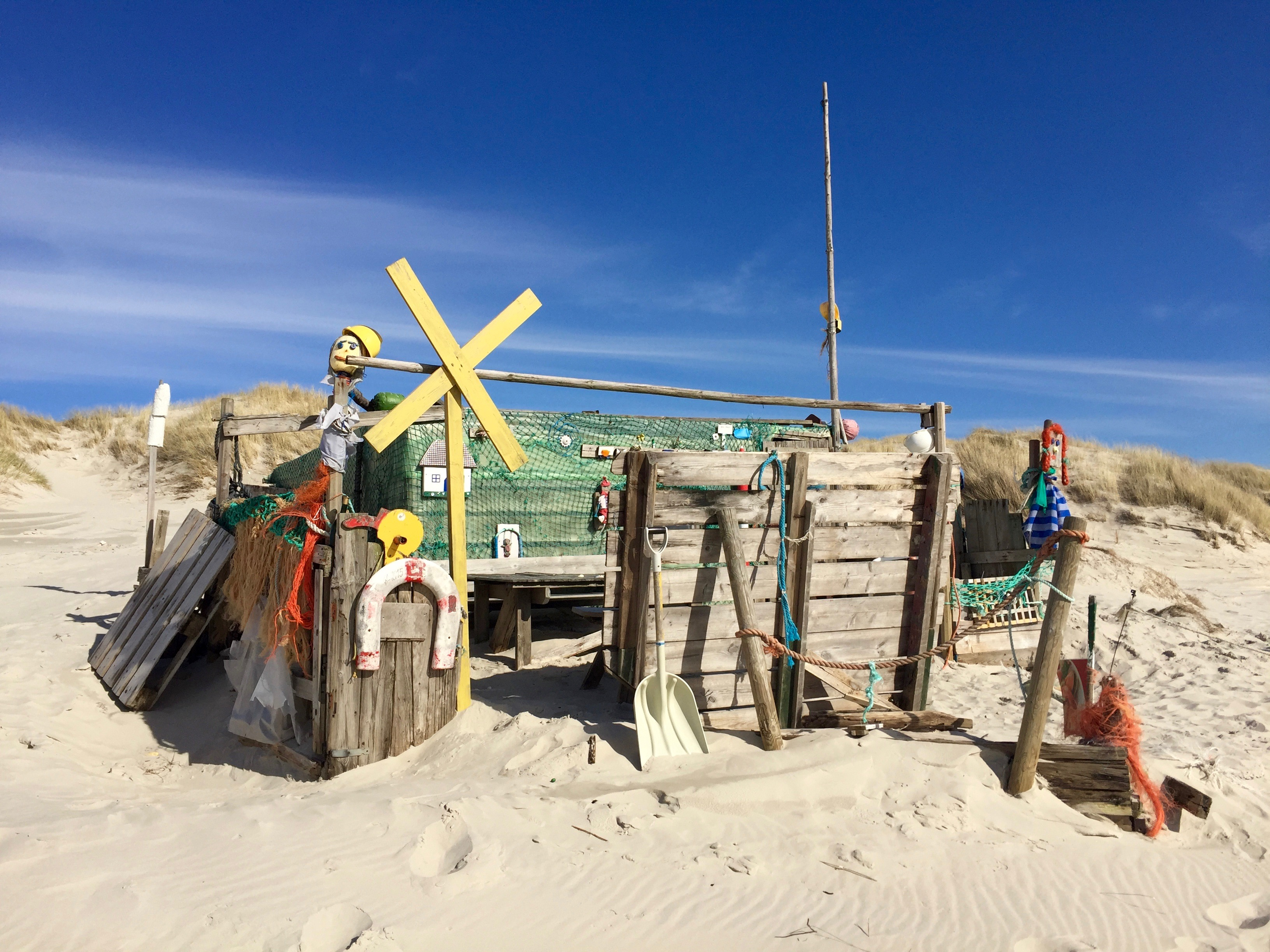 The making of this document was supported by the Community-Budget of Wikimedia Germany. Die Strandburgen von Amrum